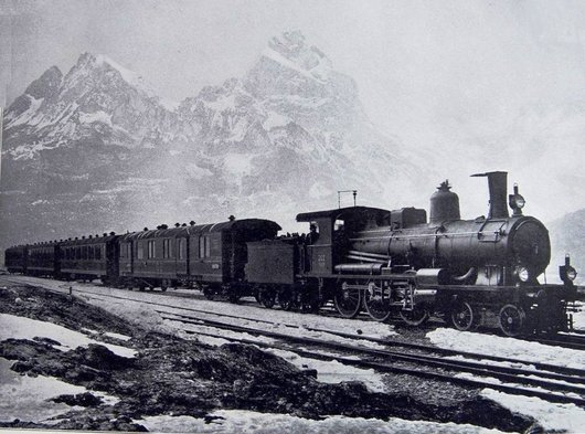 Gotthard Express in Brunnen, view to the North, in the background the two Mythen. The steam locomotive is the A 3/5 202 of the Gotthard Railway, which became the A 3/5 902 at the SBB. Year of construction: 1894. Retired: 1924. The photo was used for several postcards showing the train with a different background.